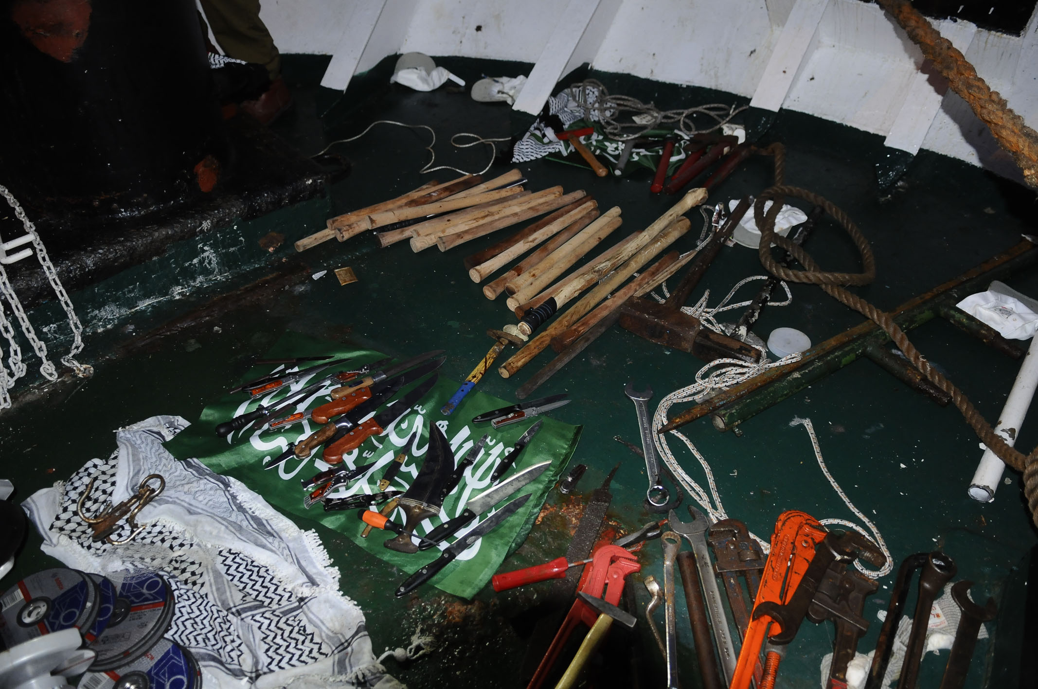 IDF soldiers who boarded the Mavi Marmara ship in order to enforce the maritime closure on Gaza, were met with a violent mob armed with clubs, slingshots, saws, knives, and used live fire against the IDF soldiers. Pictured here: Knives, wrenches, and wooden clubs used to attack the soldiers during the maritime operation. For more information: wp.me/ppbEs-qf